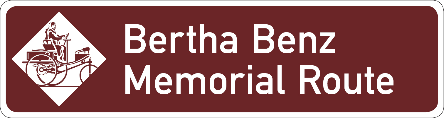 This picture shows the official signpost of the Bertha Benz Memorial Route. You can find these signposts along the 194 km of Bertha Benz Memorial Route, which commemorates history's first long distance journey with an automobile by Bertha Benz in 1888.